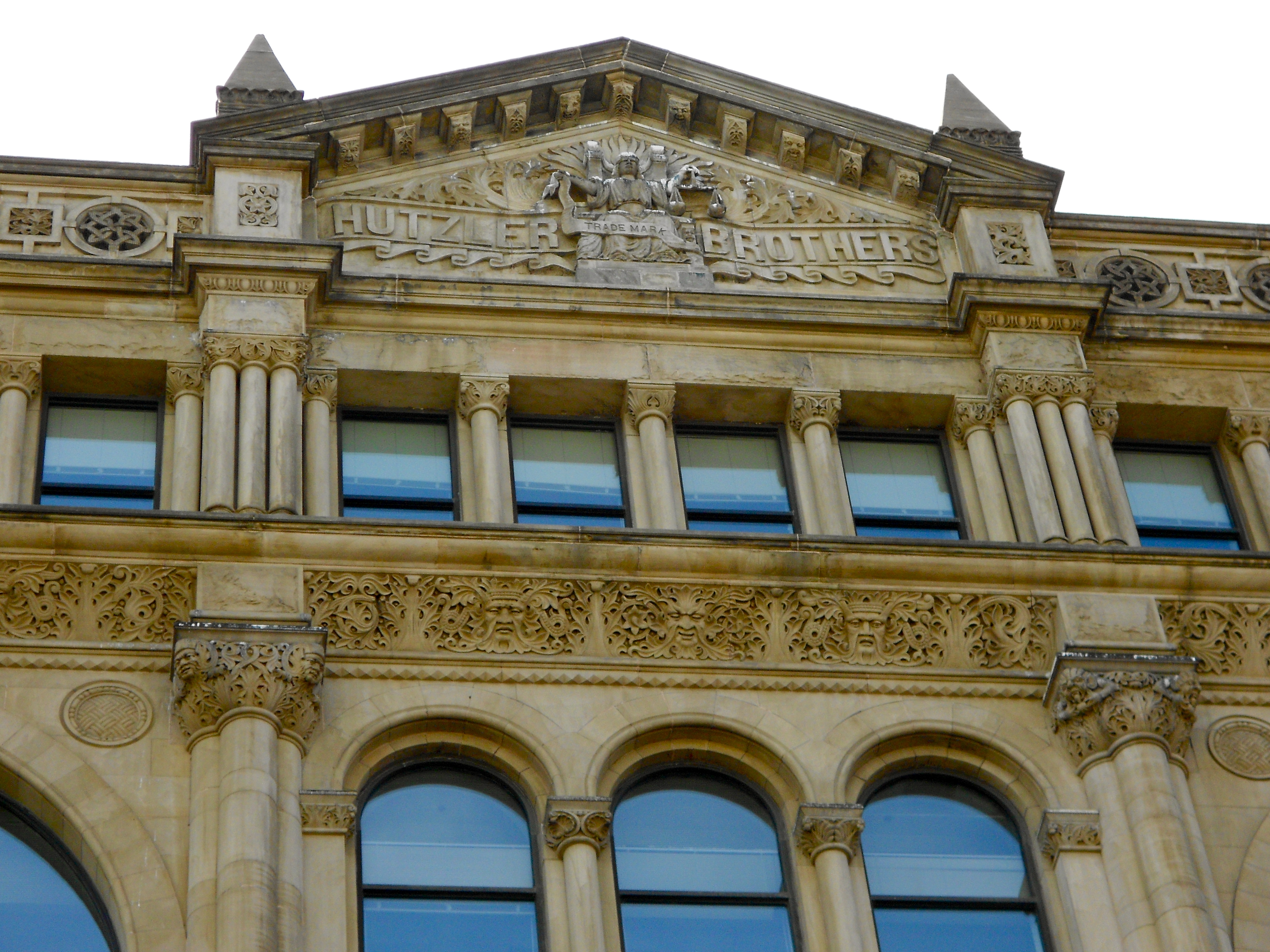 Hutzler Brothers Palace Building on the NRHP since June 7, 1984. At 210-218 N. Howard St. in central Baltimore, Maryland.